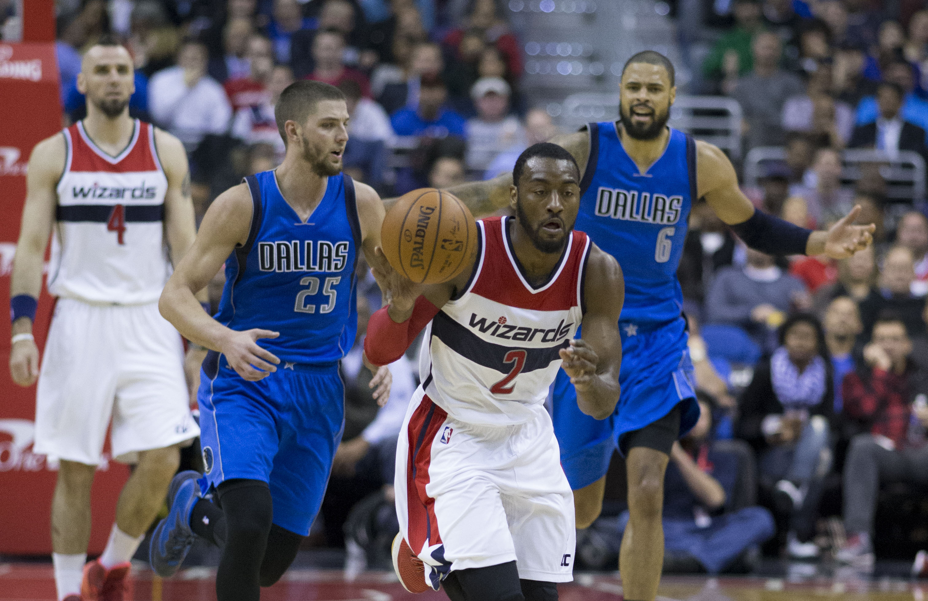 Mavericks at Wizards 11/19/14